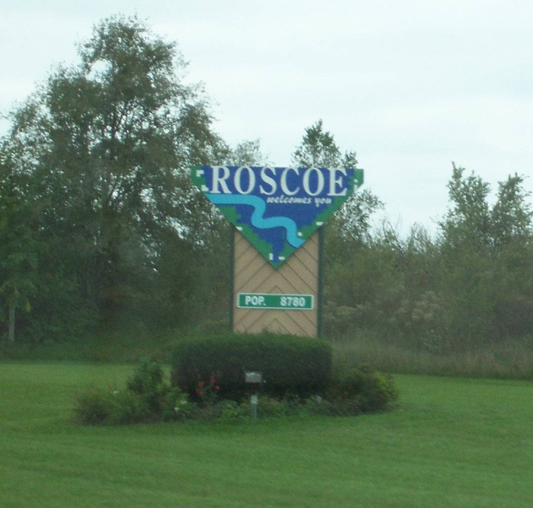 Looking south at the welcome sign for Roscoe, Illinois on Illinois Route 251.